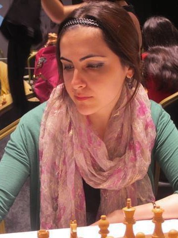 Ana Matnadze at the European Individual Chess Championship in Belgrade 2013.